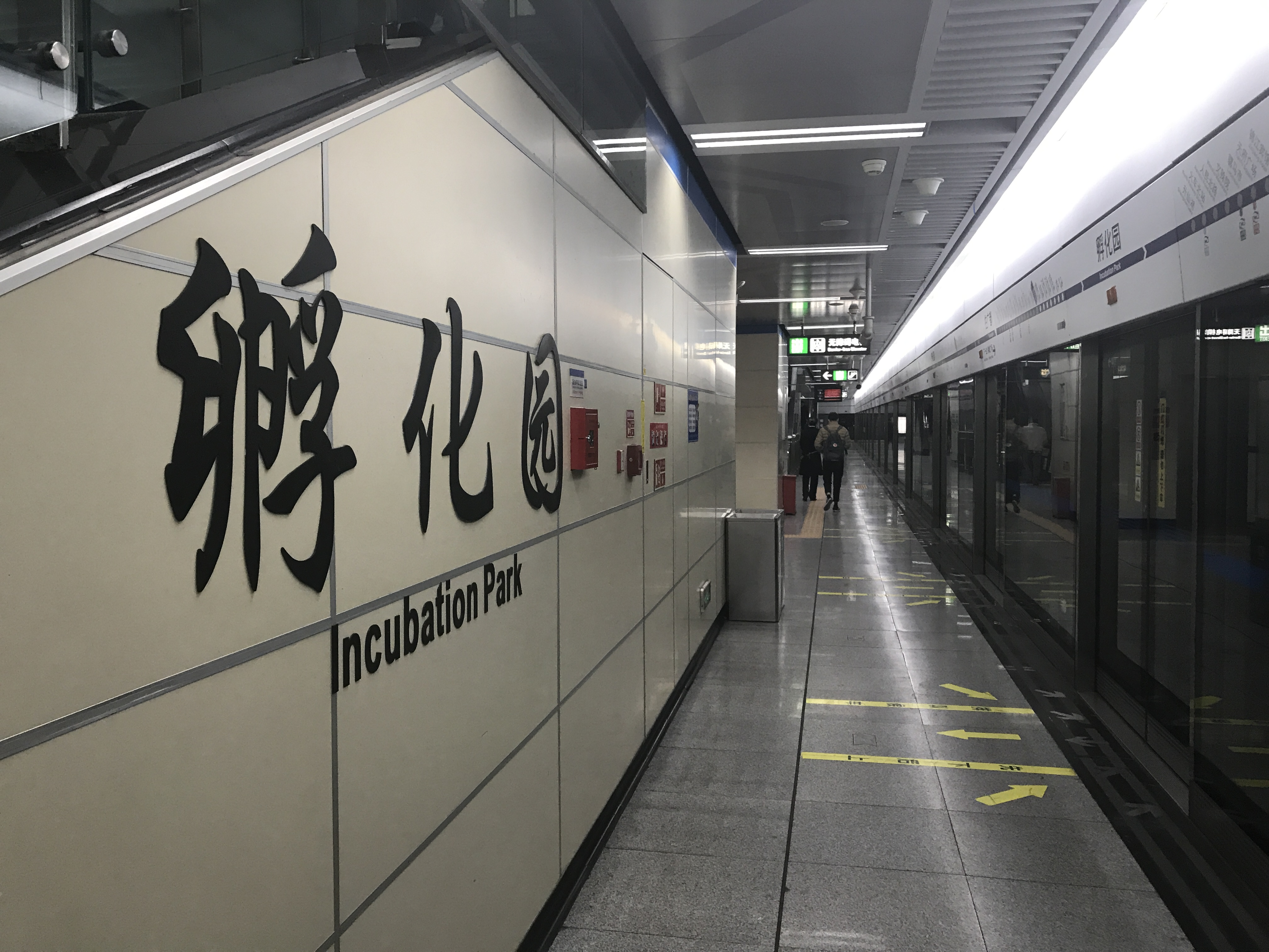 Platform of Line 1 in Incubation Park Station, Chengdu Metro